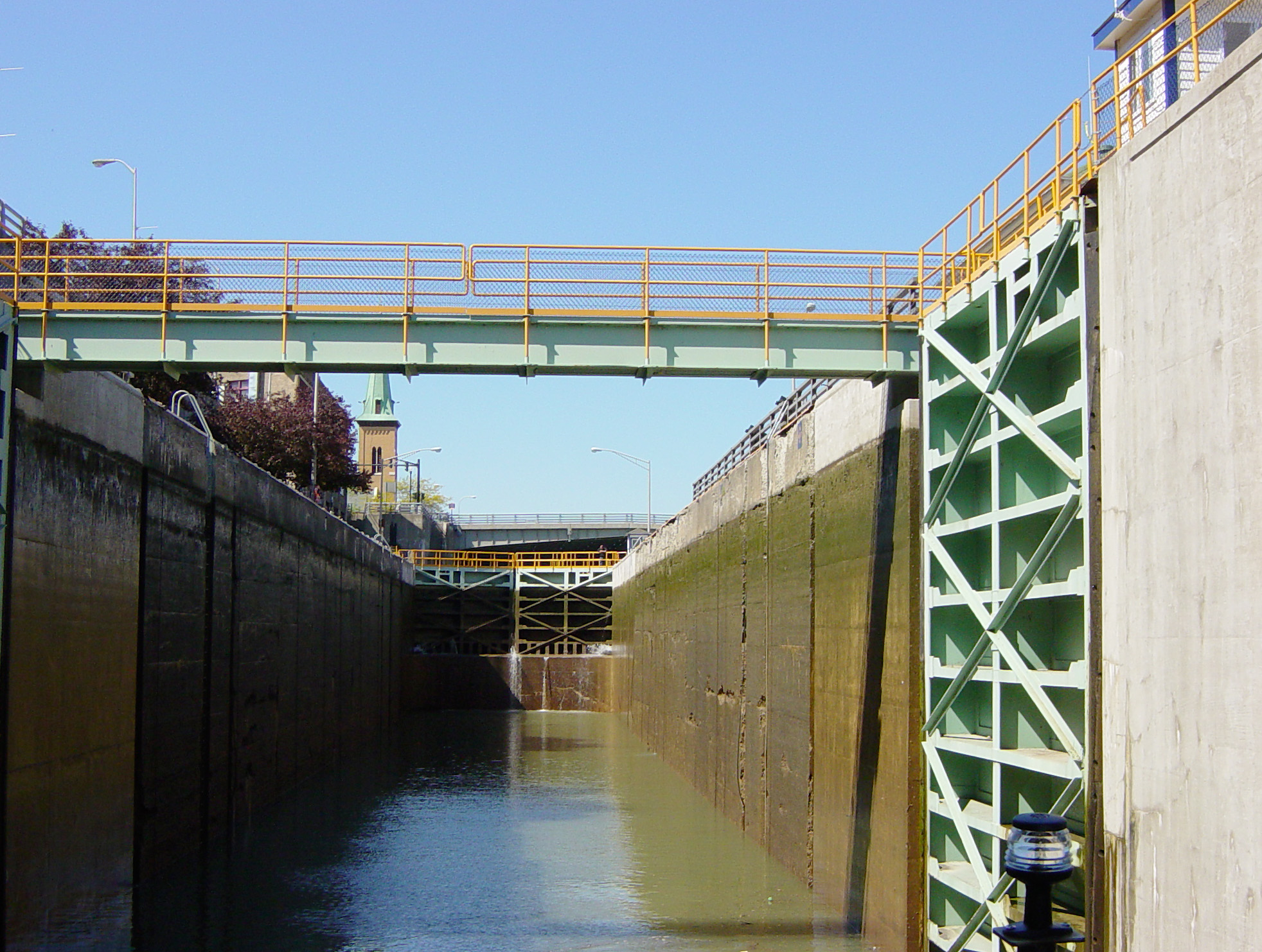 Modern Erie Canal lock at the Niagra Escarpment, replacing original five-step locks